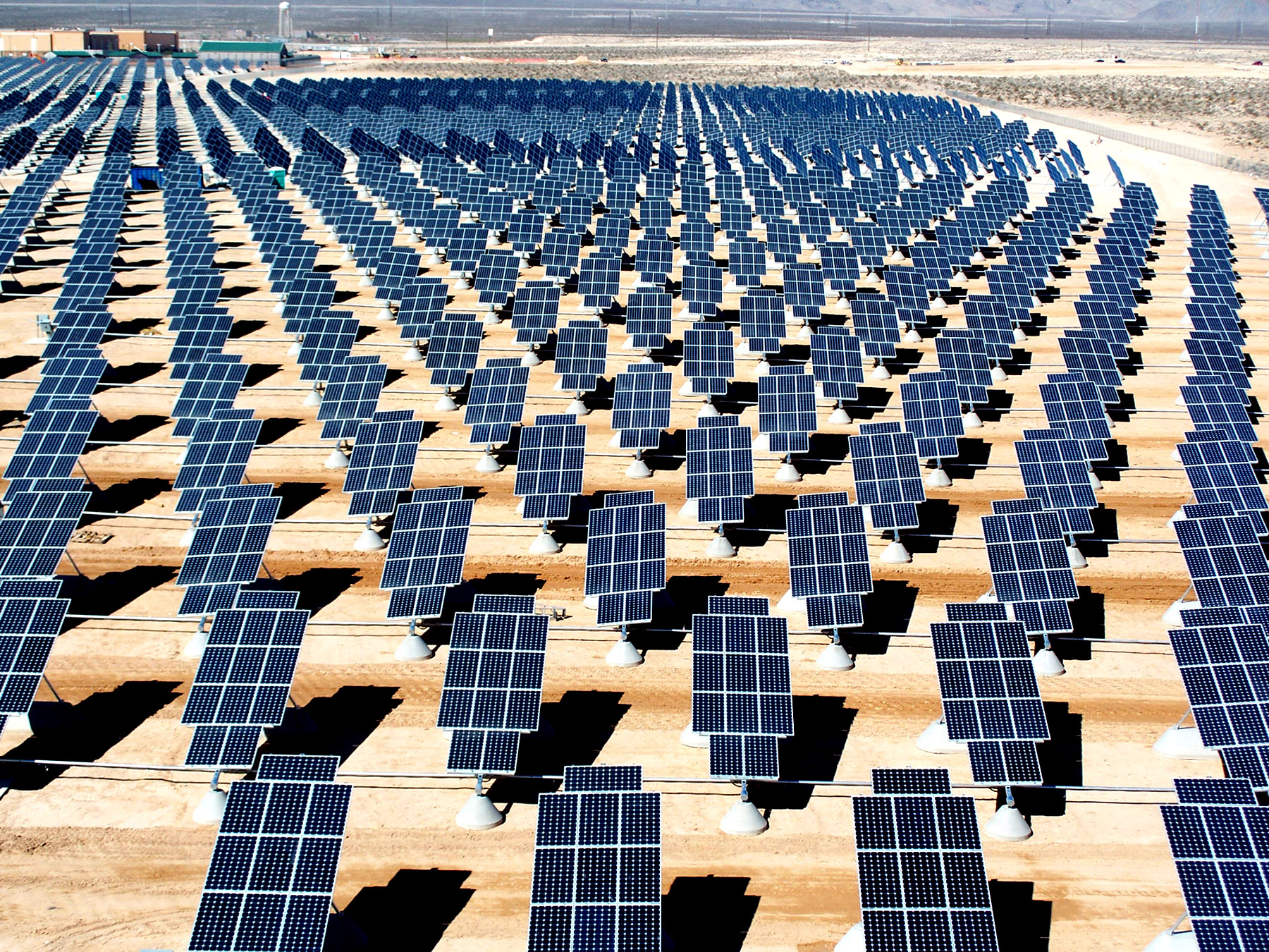 Nellis Solar Power Plant located within Nellis Air Force Base, northeast of Las Vegas, Nevada, United States. The power plant occupies 140 acres, contains about 70,000 solar panels and generates 14 megawatts of solar power for the base.